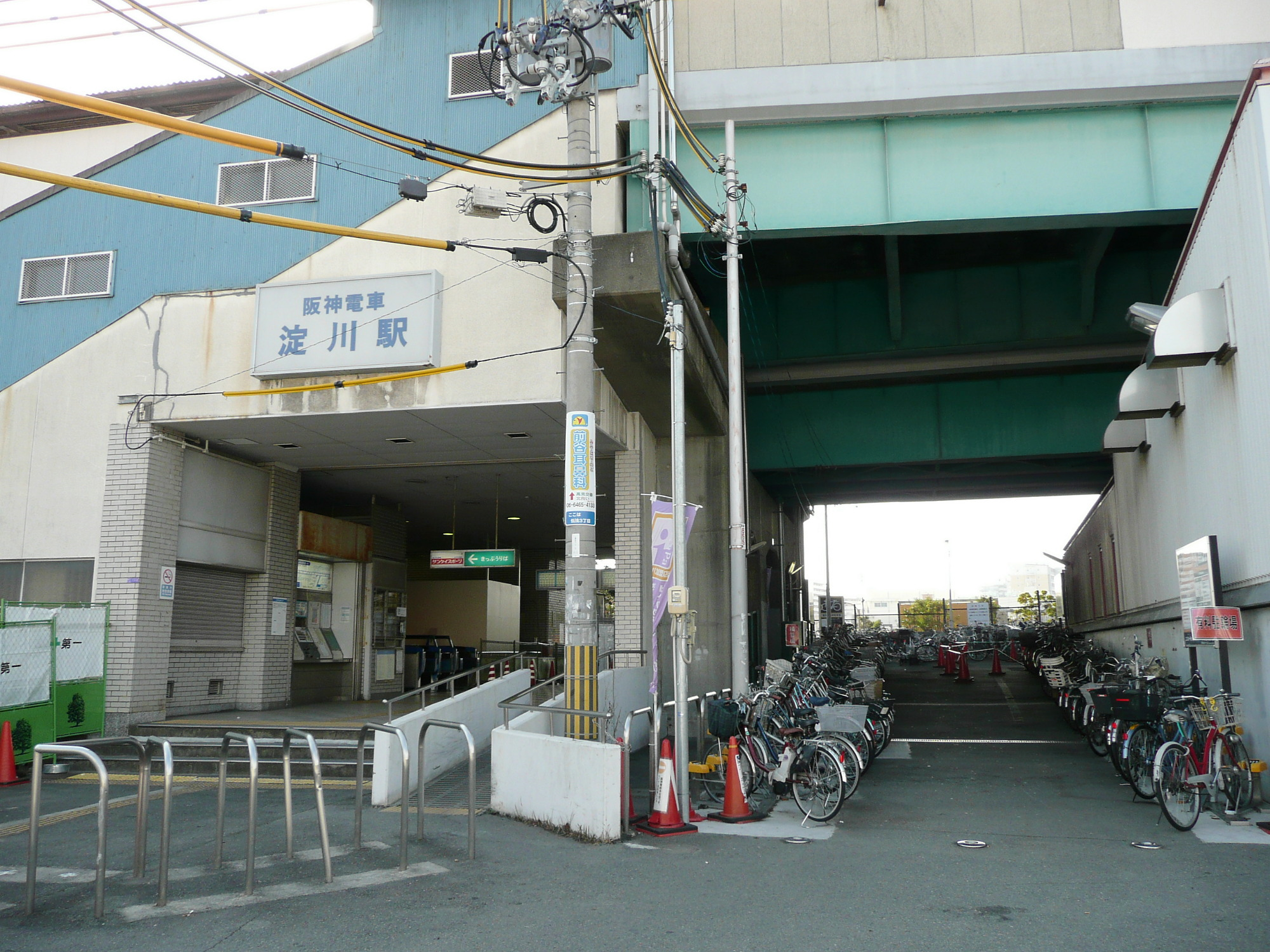 Hanshin Electric Railway,Main Line,Yodogawa Station east entrance. /阪神本線淀川駅東口